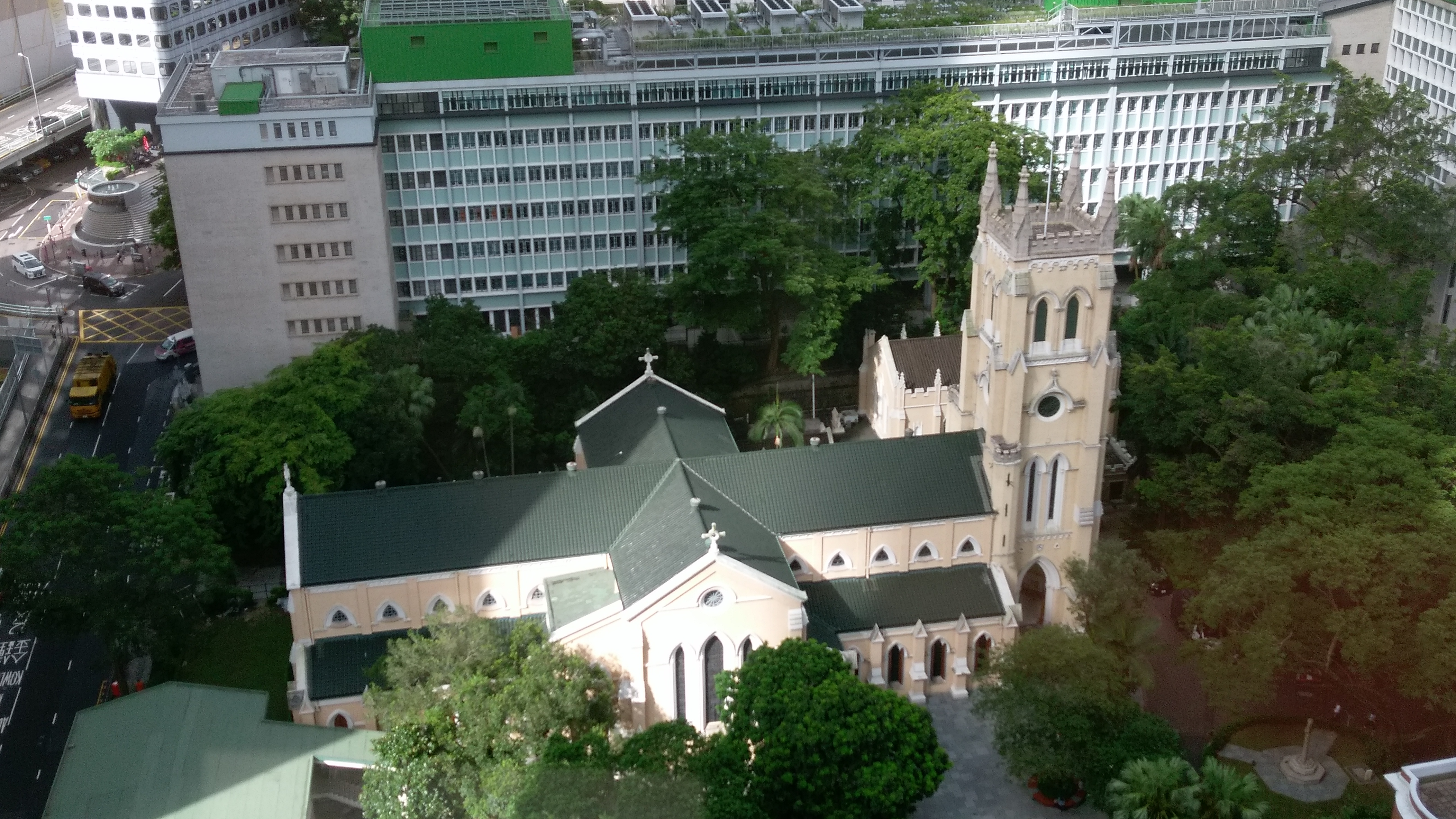 The Saint John's Cathedral in Central, Hong Kong.